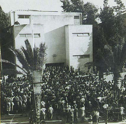 Large celebratory crowd outside the Dizengoff House (now called Independence Hall) to hear the declaration and signing of Israel's Declaration of Independence, dated May 14, 1948.